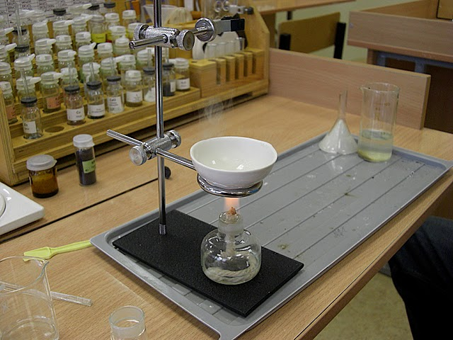 alcohol stove or spirit lamp